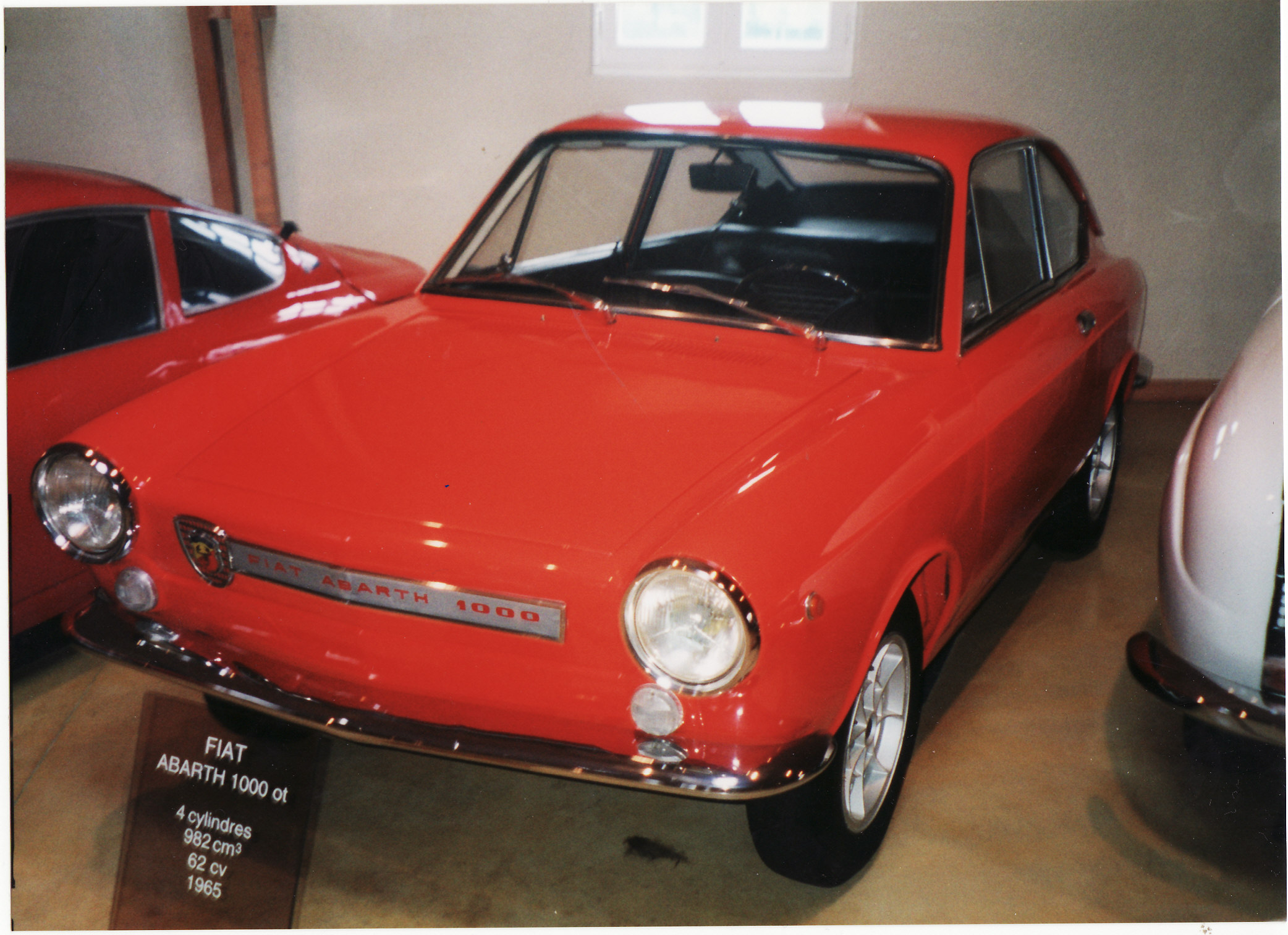 Fiat Abarth OT1000 Coupe